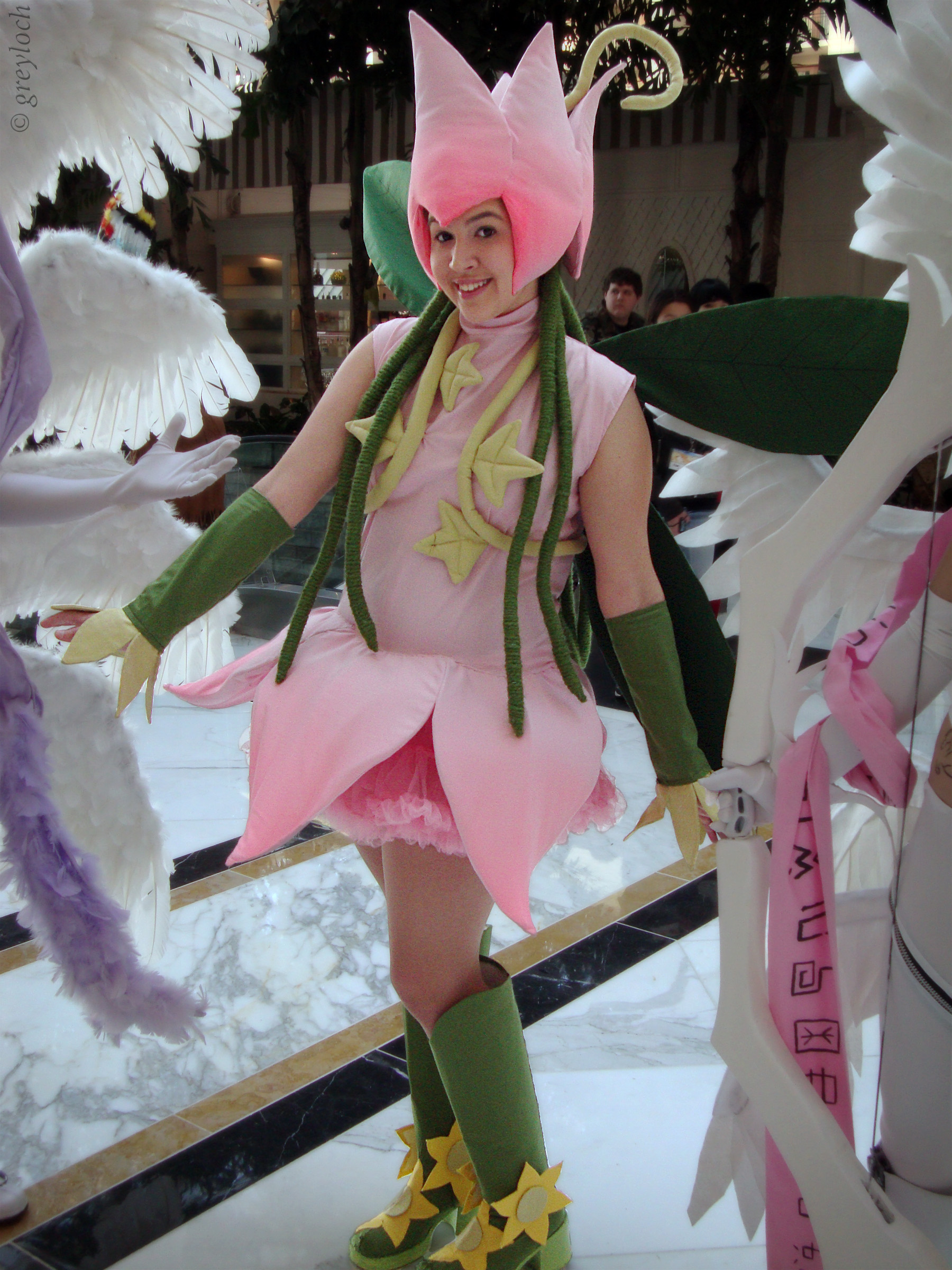 Cosplay of Lillymon.